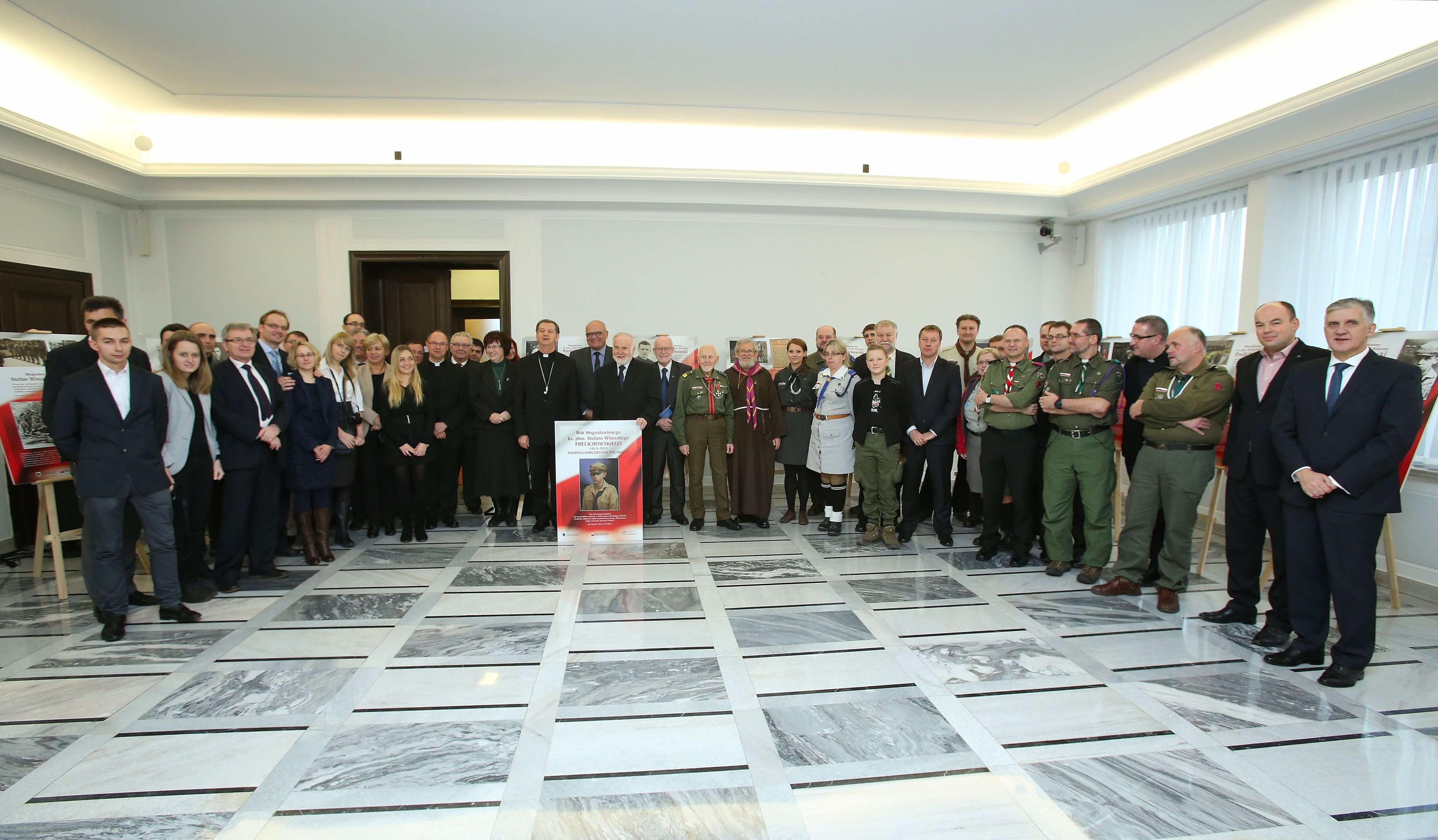 Opening of the exhibition commemorating 100th anniversary of birth of Stefan W. Frelichowski" in the Polish Senate